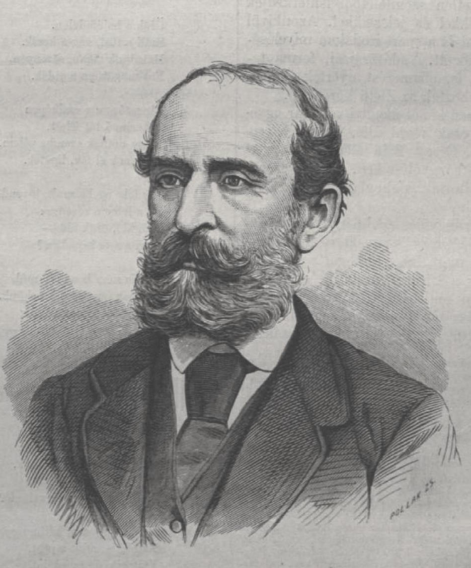 Béla Orczy